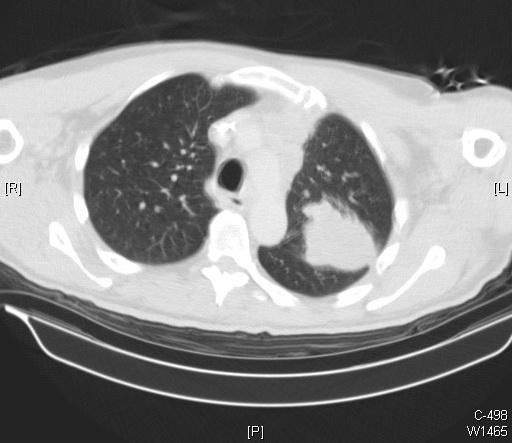 A large mass is present in the left lung.